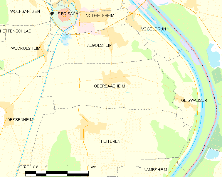 Map of French municipality